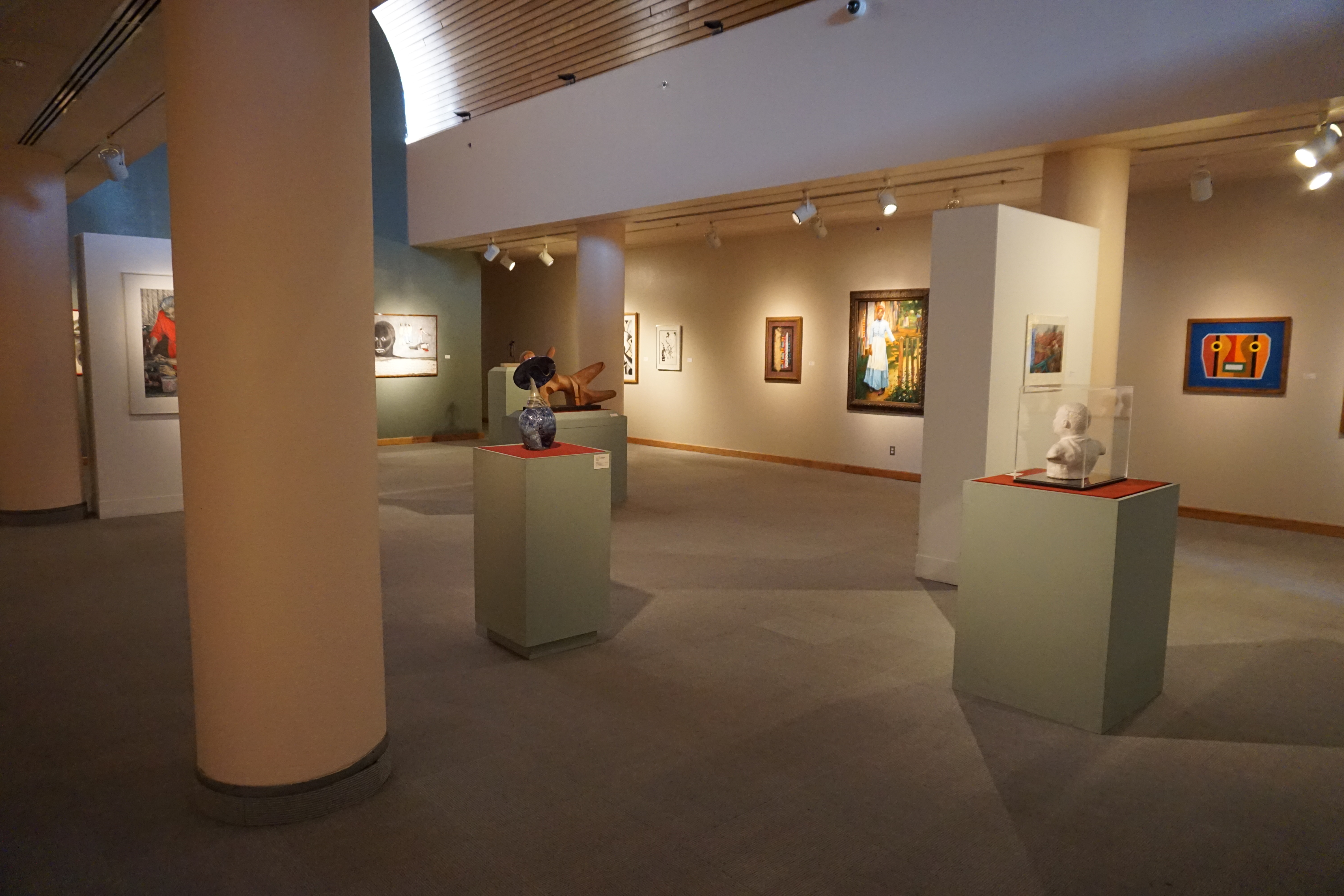 The GENESIS: Local African American Artists exhibition at the African American Museum at Fair Park in Dallas, Texas (United States).